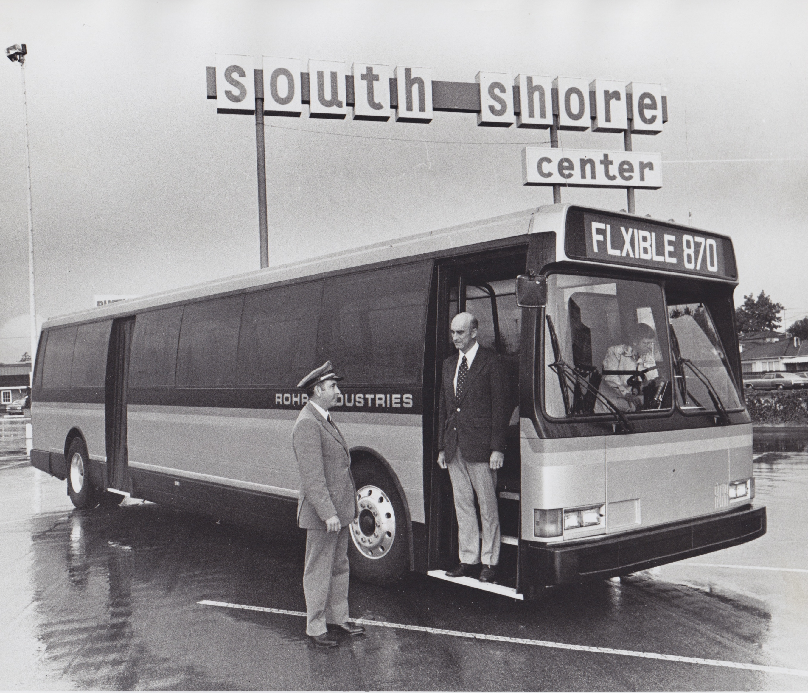 Scan 275